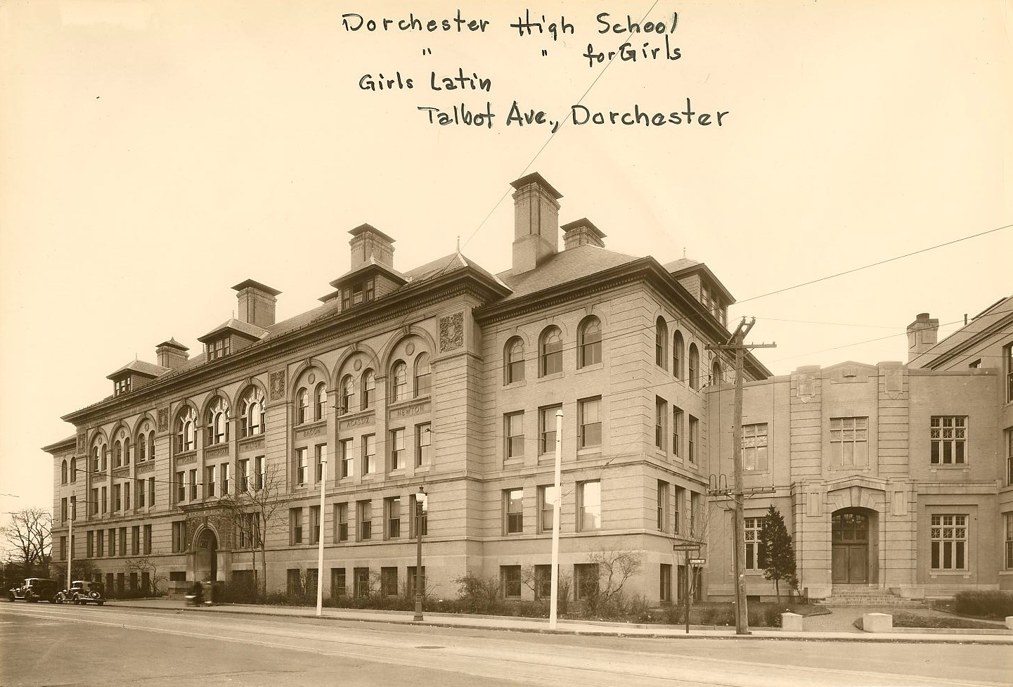 Dorchester High School for Girls (Exterior)